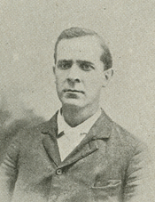 Photo of Congressman Alston Gordon Dayton of West Virginia